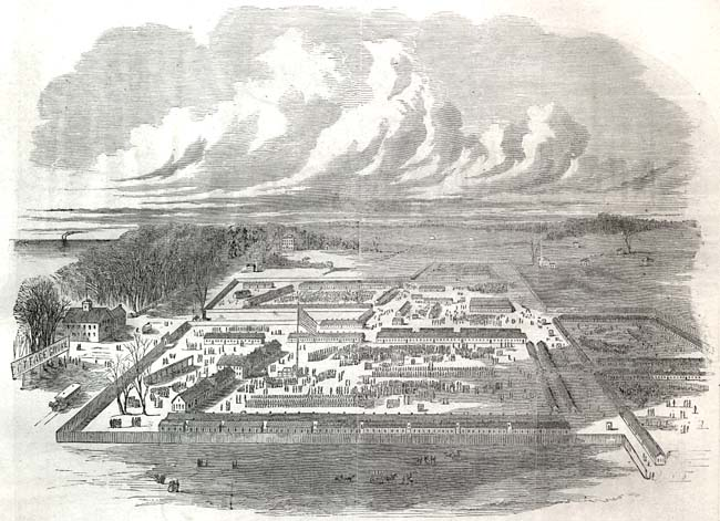 This illustration from Harper's Weekly, April 5, 1862 issue, pictures the camp on the prairie. The camp served as a prison for Confederate solders from 1862 through 1865.